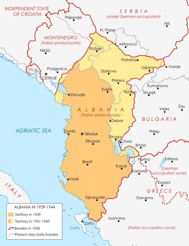 Map of Albania during WWII